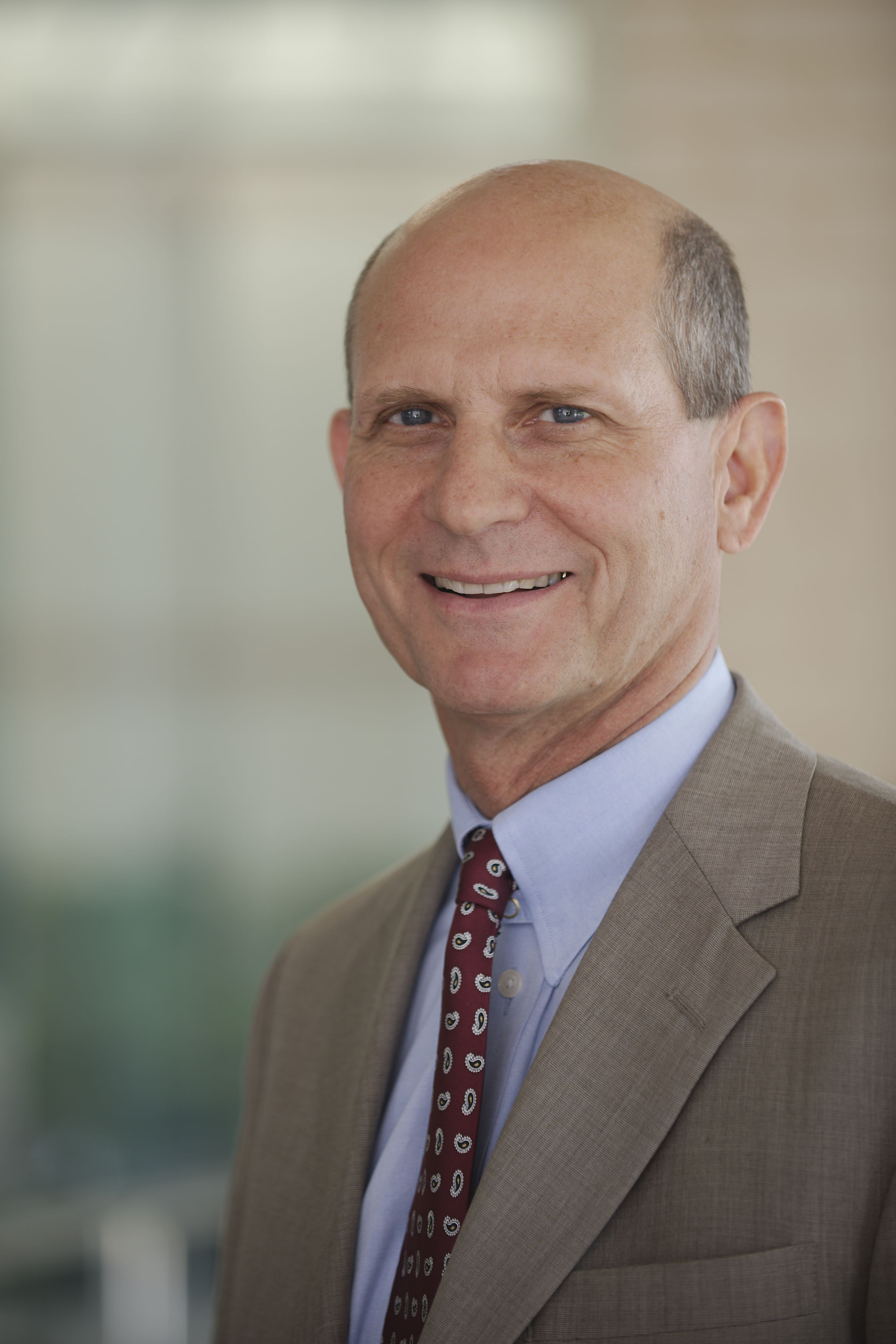 Portrait of Ted N.C. Wilson, President of the General Conference of Seventh-day Adventists (Church).